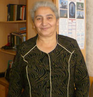 Romela Dadajan